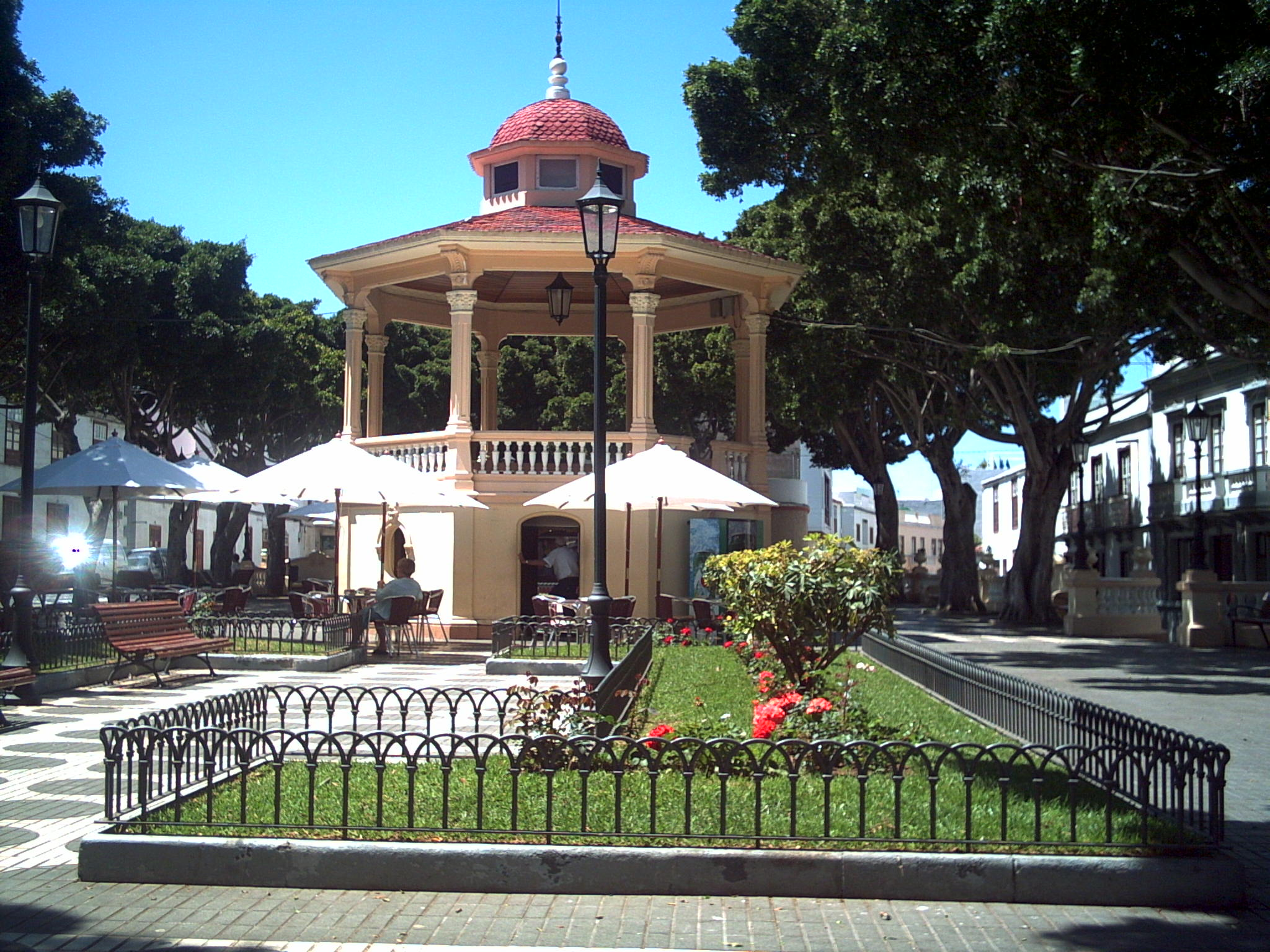 main square in Los silos town, Tenerife, Canary Islanda, Spain